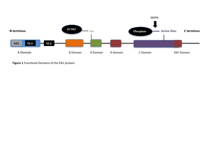 Functional domains of the Elk1 protein.